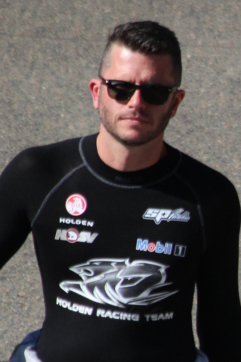 Garth Tander at the 2016 Porsche Rennsport Motor Racing Festival.